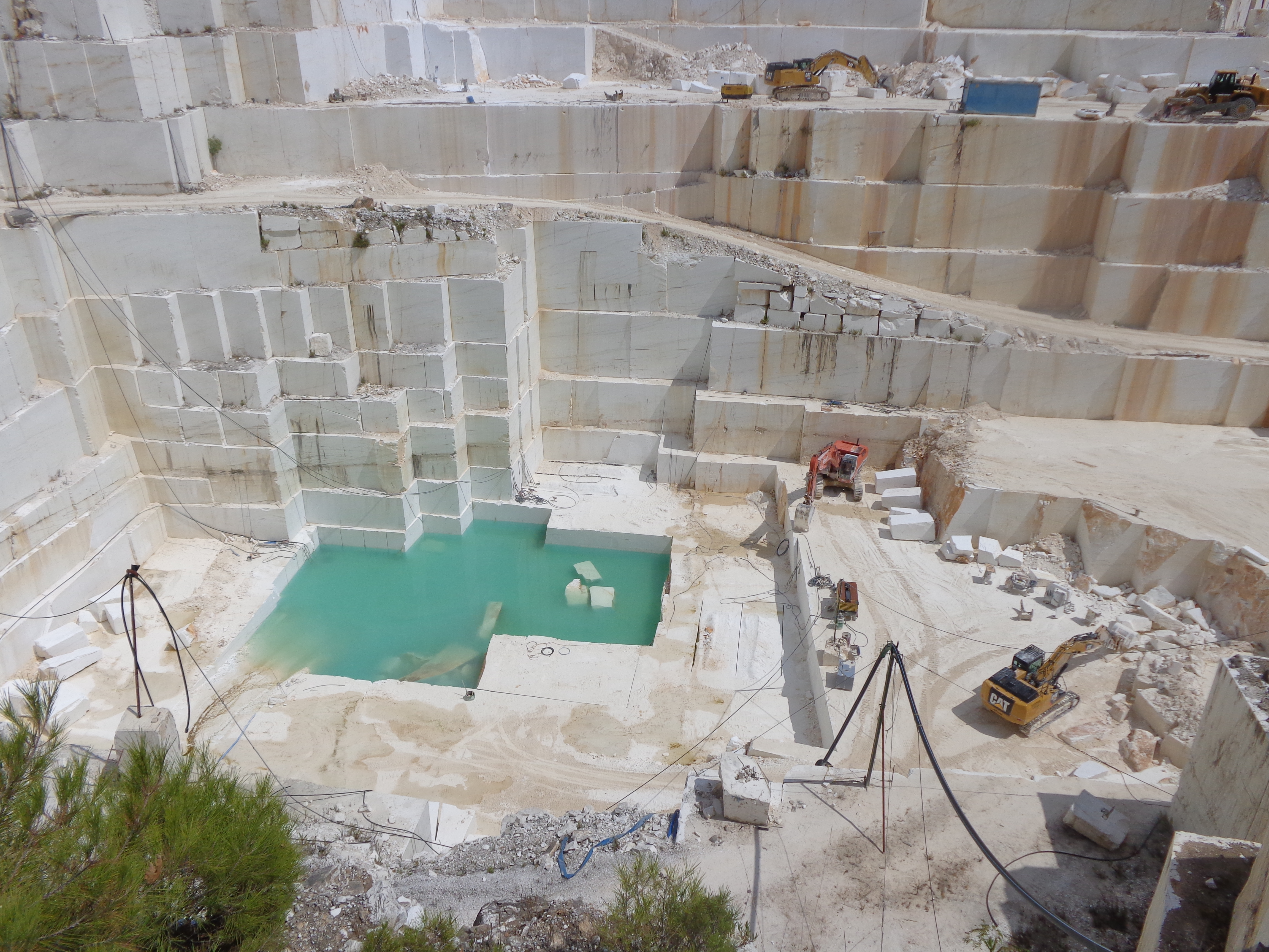 Marble quarry on Thasos island, Northern Greece